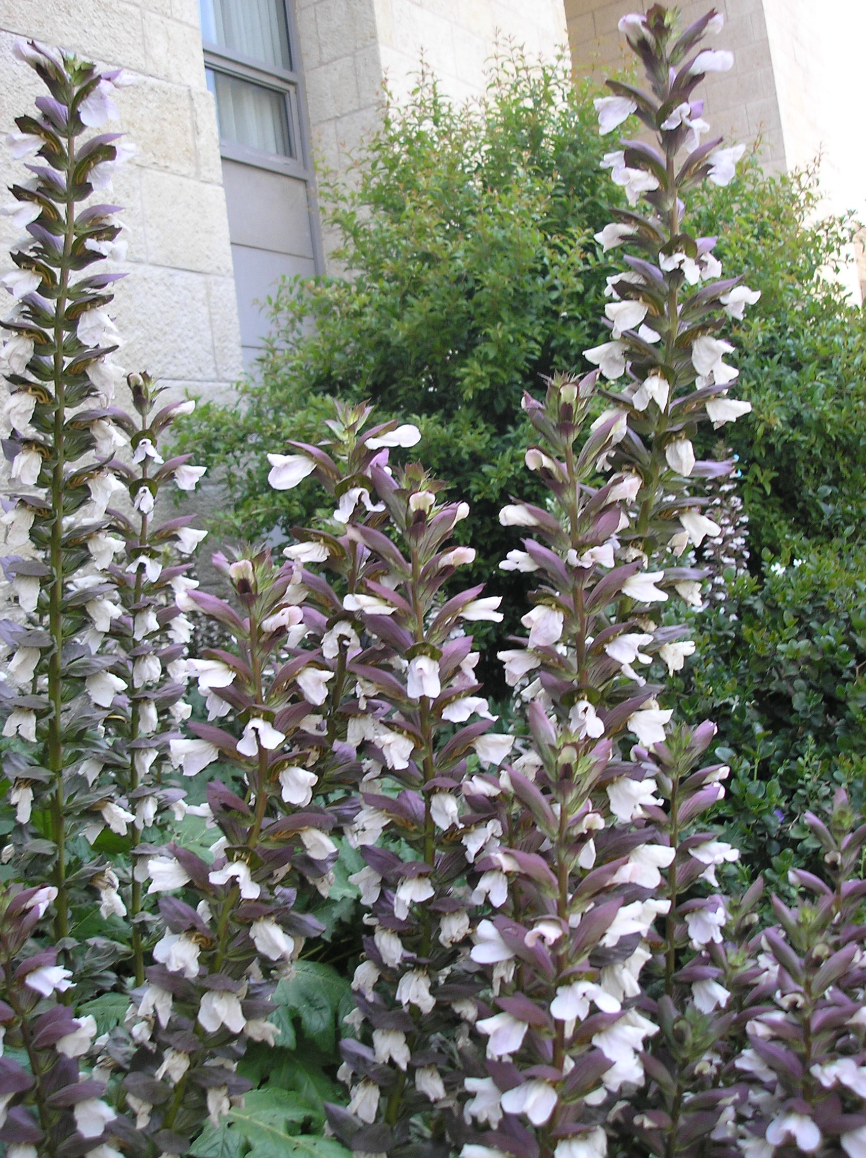 Acanthus flowers near David Citadel's Hotel, Jerusalem